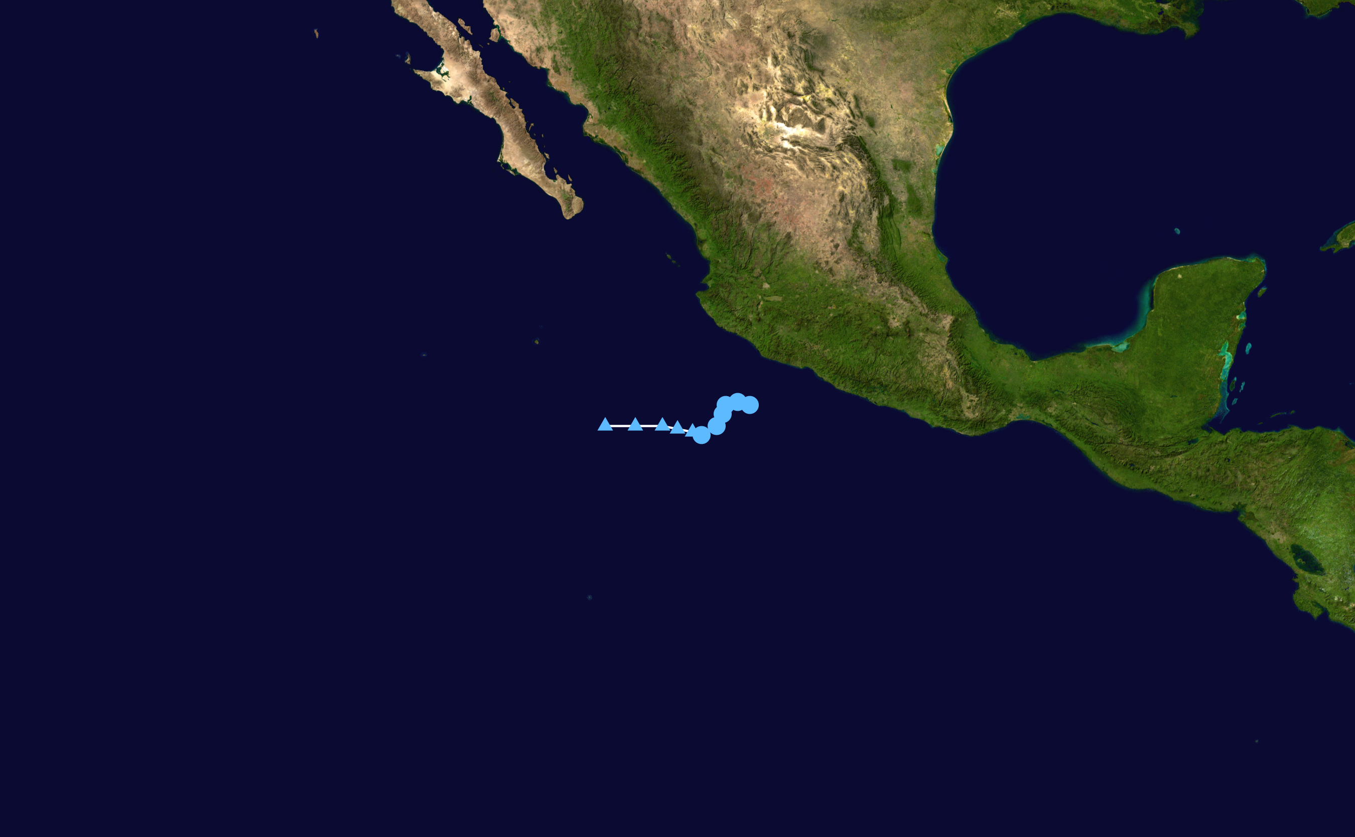 Track map of Tropical Depression Eighteen-E of the 2006 Pacific hurricane season. The points show the location of the storm at 6-hour intervals. The colour represents the storm's maximum sustained wind speeds as classified in the Saffir–Simpson scale (see below), and the shape of the data points represent the nature of the storm, according to the legend below. Saffir–Simpson scale Tropical depression≤38 mph≤62 km/h Category 3111–129 mph178–208 km/h Tropical storm39–73 mph63–118 km/h Category 4130–156 mph209–251 km/h Category 174–95 mph119–153 km/h Category 5≥157 mph≥252 km/h Category 296–110 mph154–177 km/h Unknown Storm type Tropical cyclone Subtropical cyclone Extratropical cyclone / Remnant low / Tropical disturbance / Monsoon depression